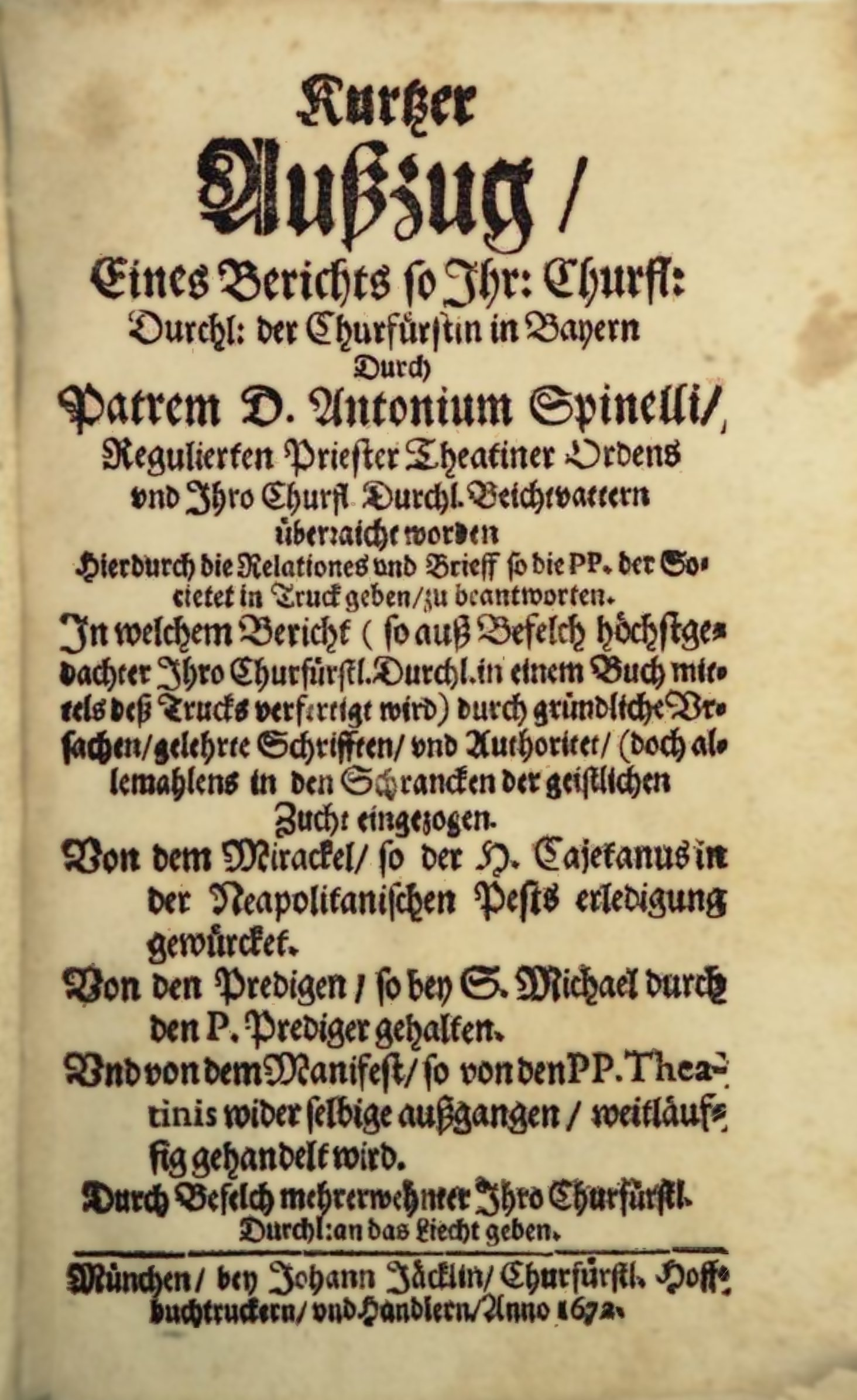 Front page of Spinellis polemic against Jesuit William Gumppenberg, printed 1672